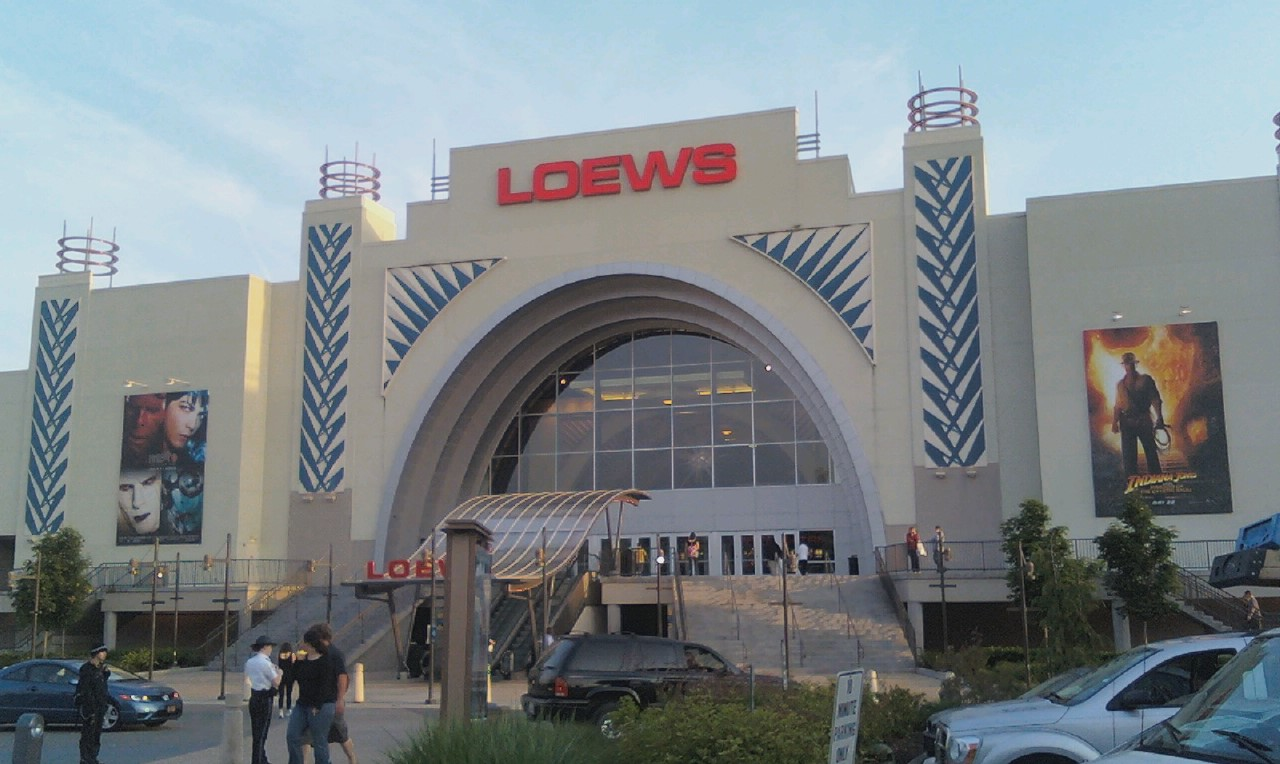 AMC Loews Alderwood Mall 16 Theater in Lynnwood, WA